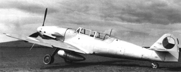 A Avia CS-99 Trainer